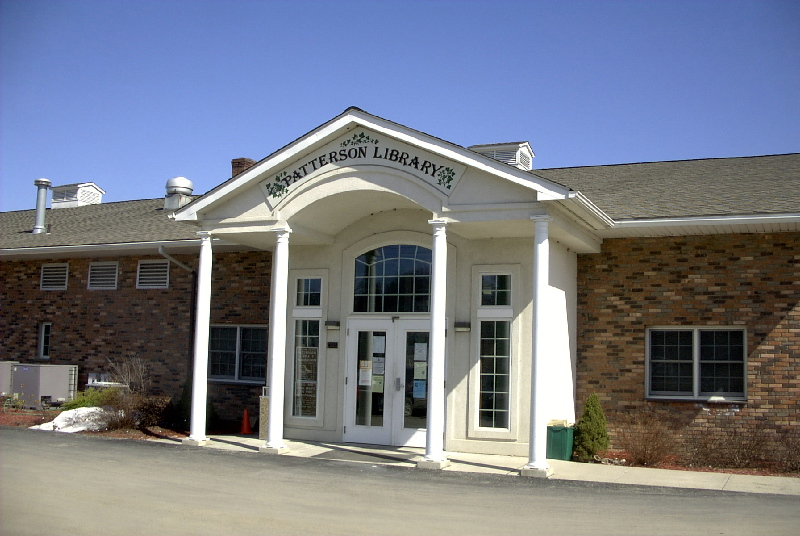 I took this photograph of the Patterson Library in Patterson, New York. —GNU Free Documentation License